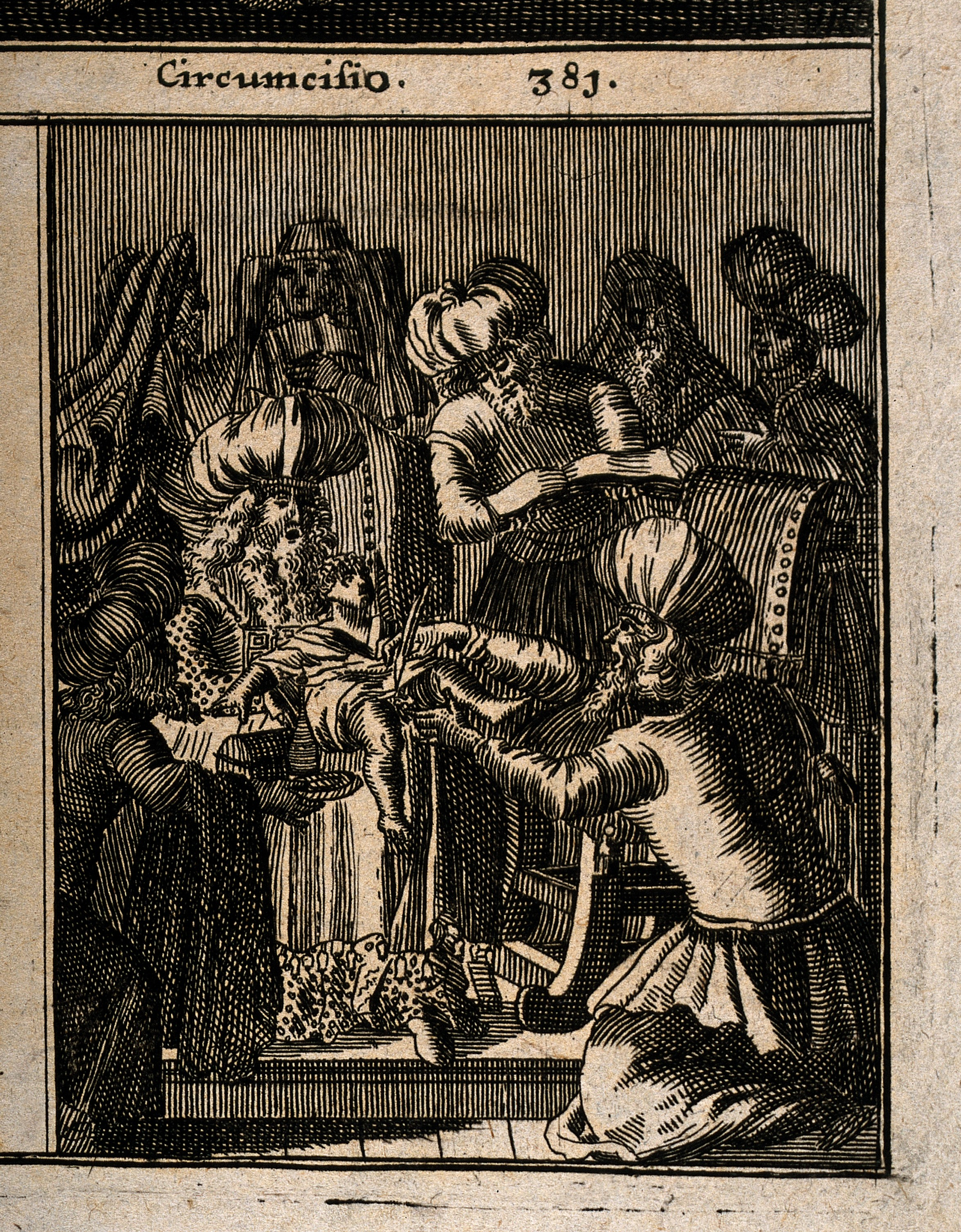 An infant boy being circumsised by a mohel. One of three scenes illustrating: a woman undergoing a trial for adultery, a Jewish burial and circumcision ceremony. Etching after a woodcut, 1682. Picture reference no. V0016779 shows all three scenes. Iconographic Collections